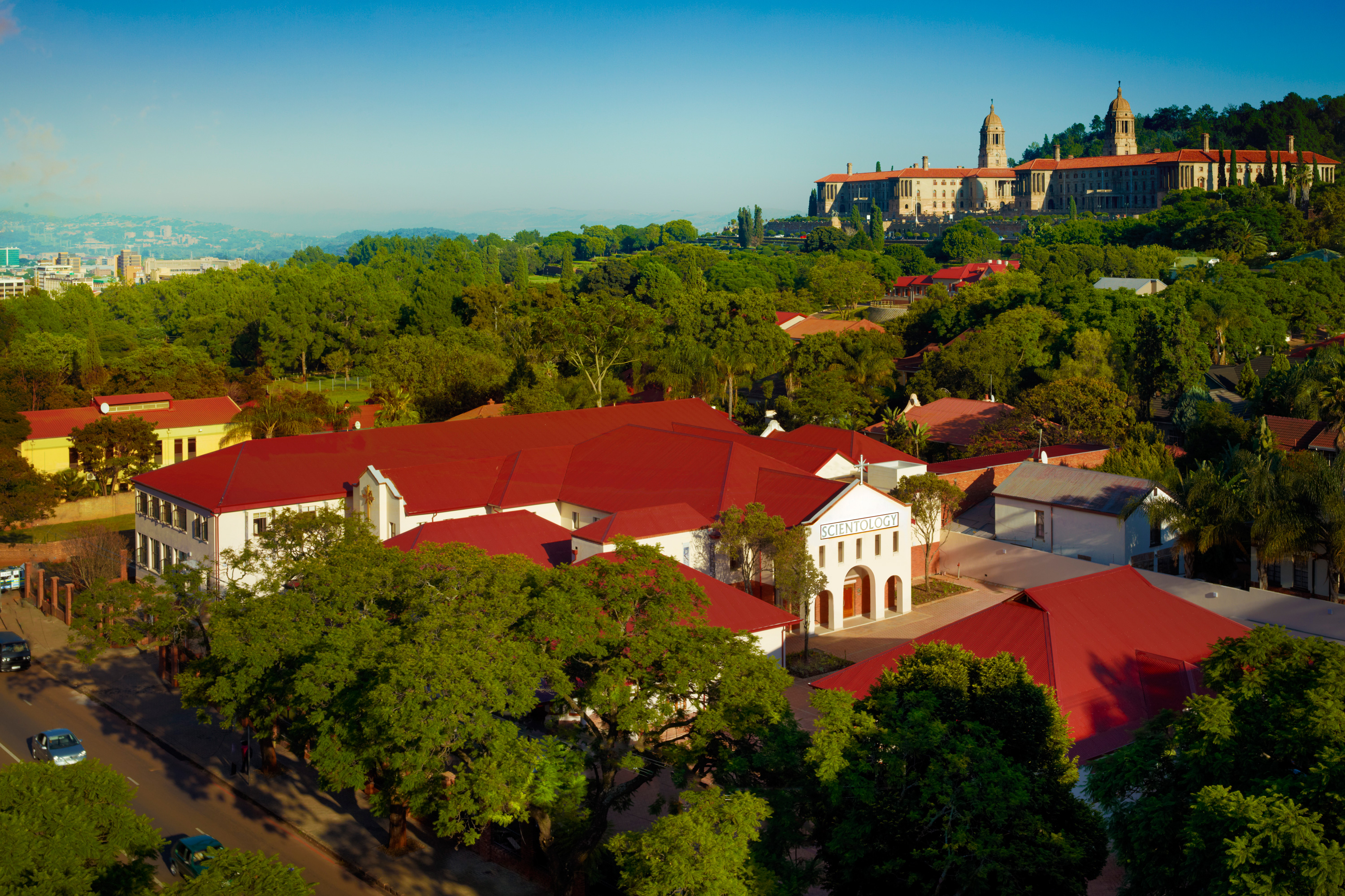 Church of Scientology Pretoria, South Africa